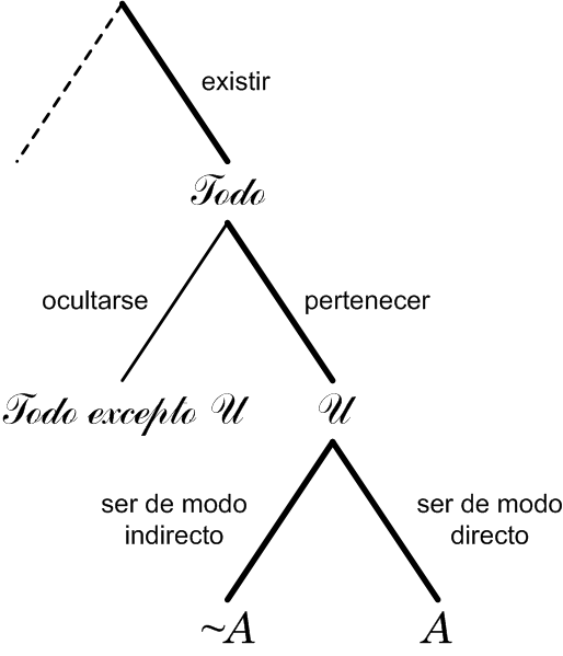 Las tres bifurcaciones del Camino del Ser - Juan José Luetich